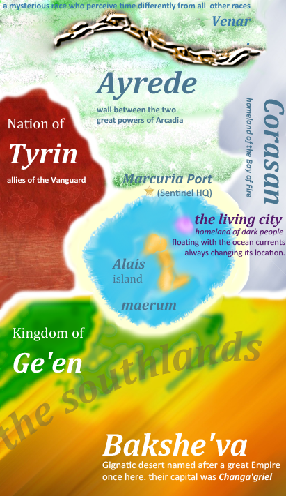 Map of Arcadia. a world in the game "The Longest journey.